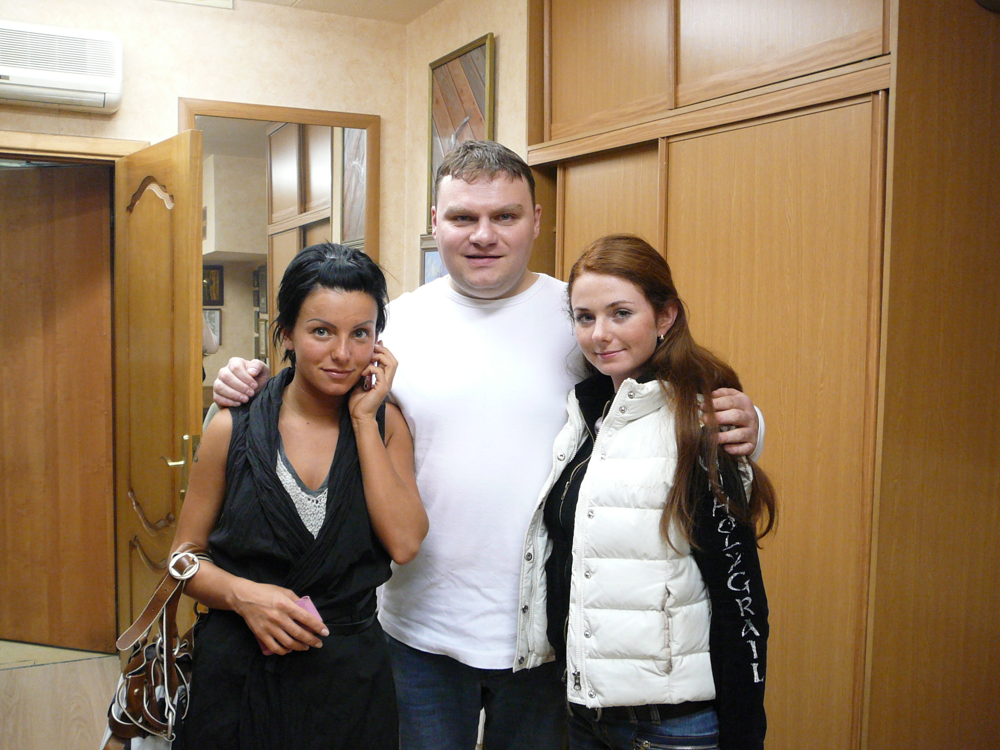 April 6 (Sunday) at 11:59 PM (Moscow time) Singers Lena Katina and Julia Volkova from t.A.T.u. as guests of Echo of Moscow Radio /91,2 FM/, in the music program Argentum (